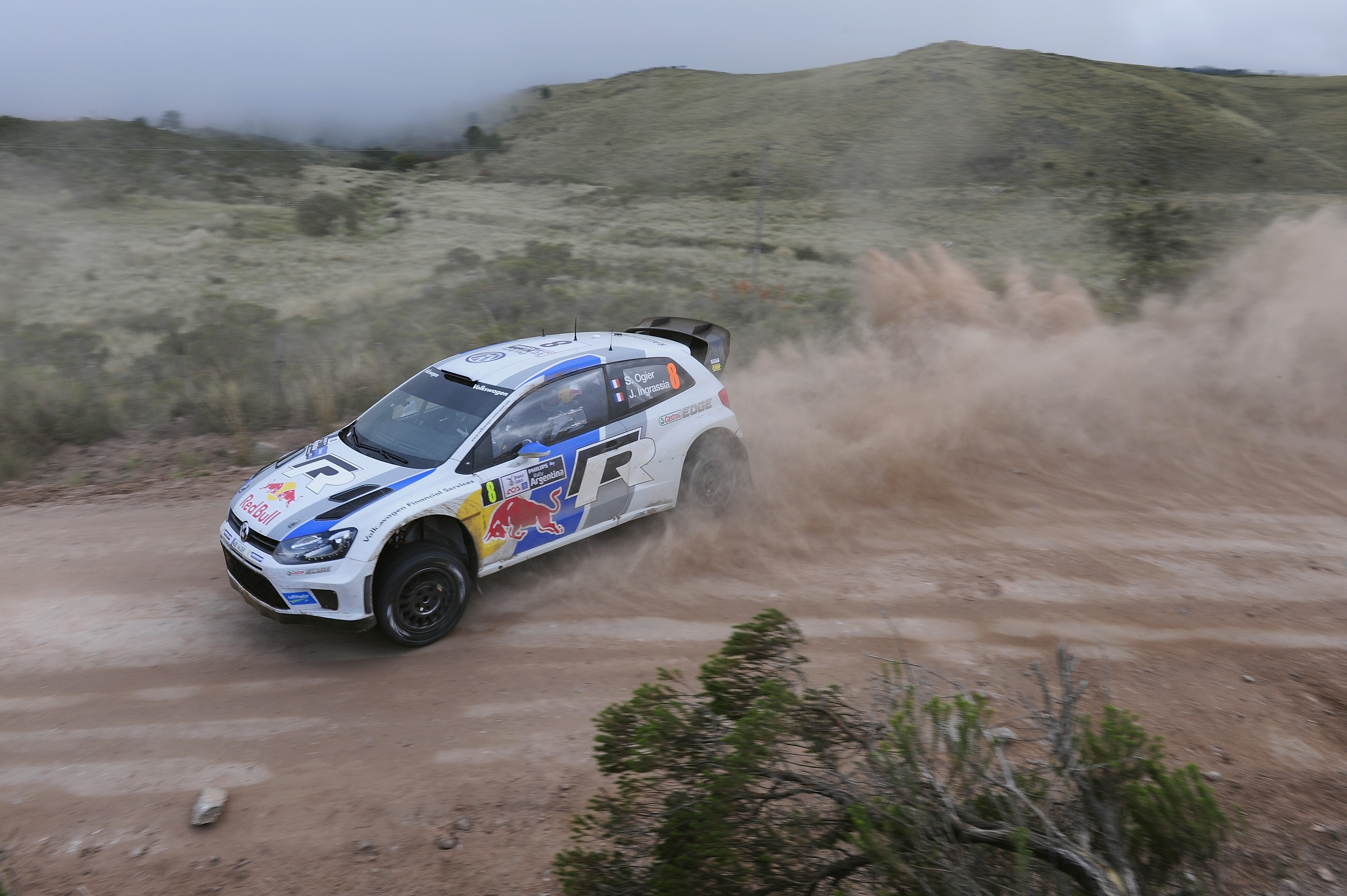 Sébastien Ogier and co-driver Julien Ingrassia in their VW Polo R WRC at the 2013 Rally Argentina.